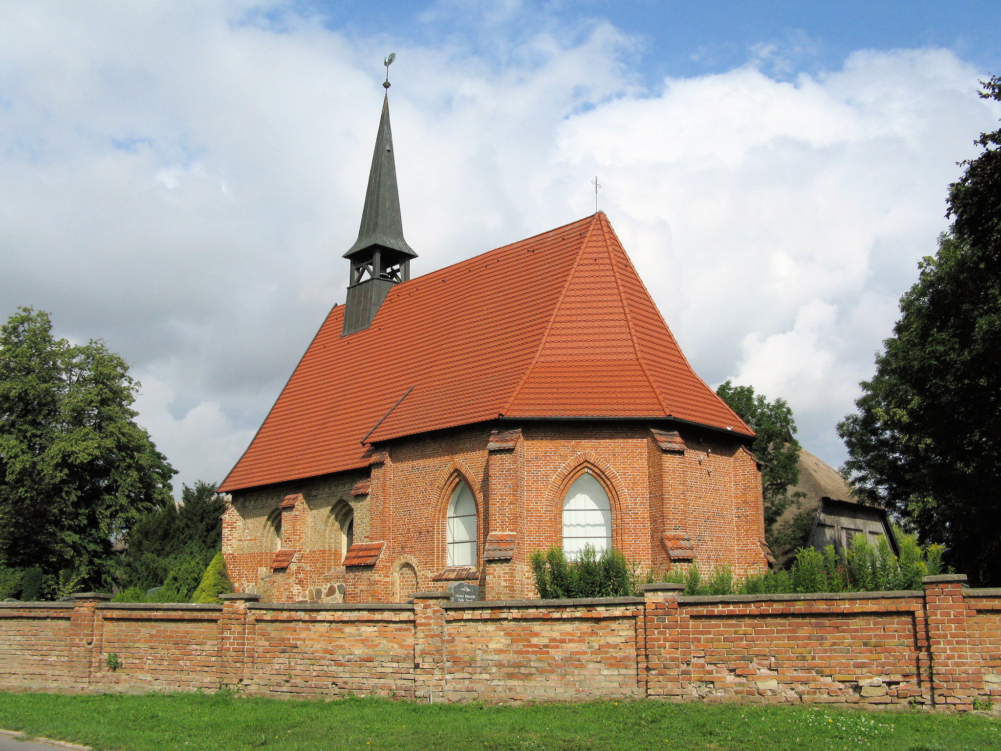 Church in Hohen Luckow, disctrict Bad Doberan, Mecklenburg-Vorpommern, Germany